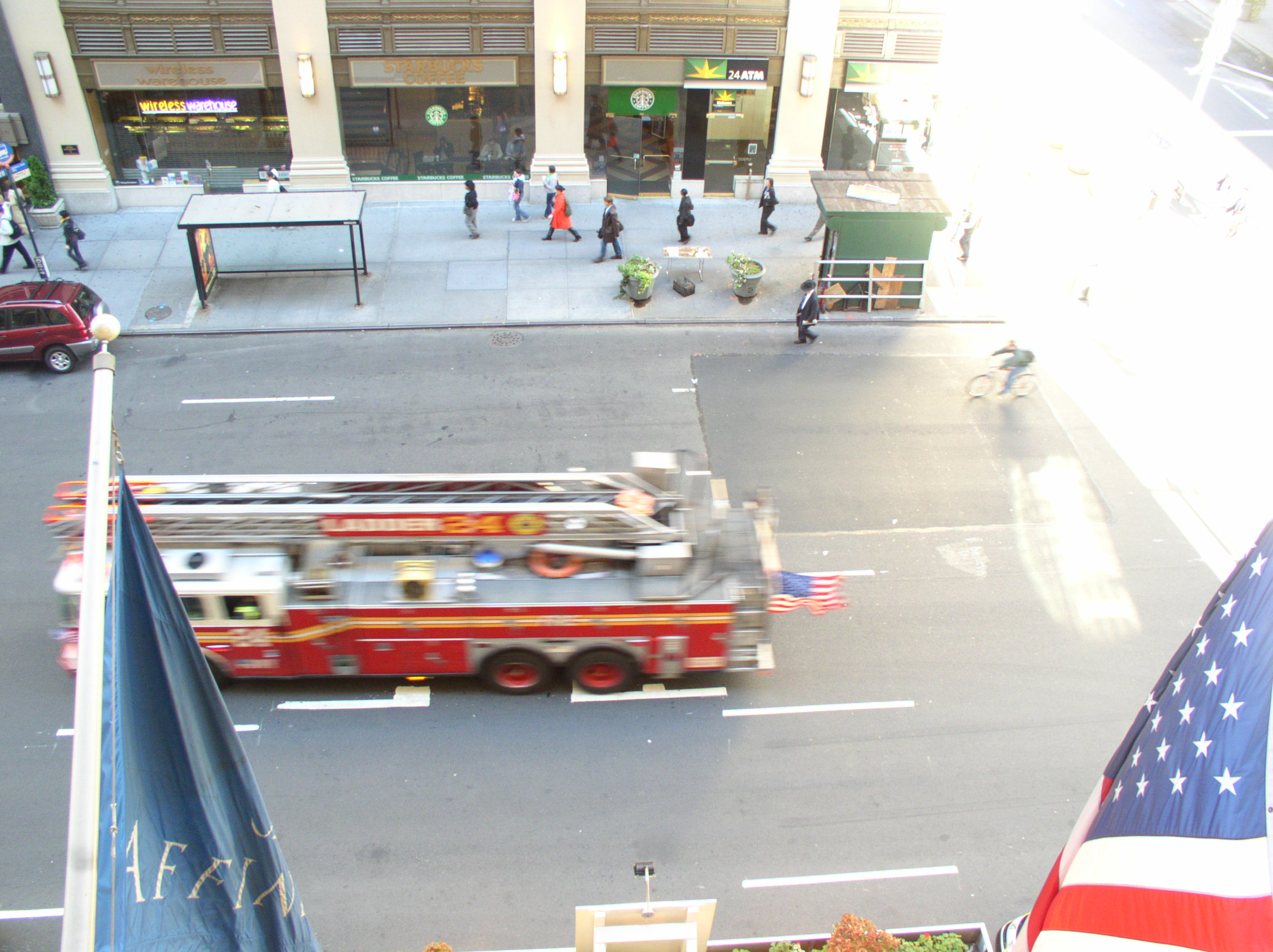 Manhattan Firebrigade (7th Ave.)